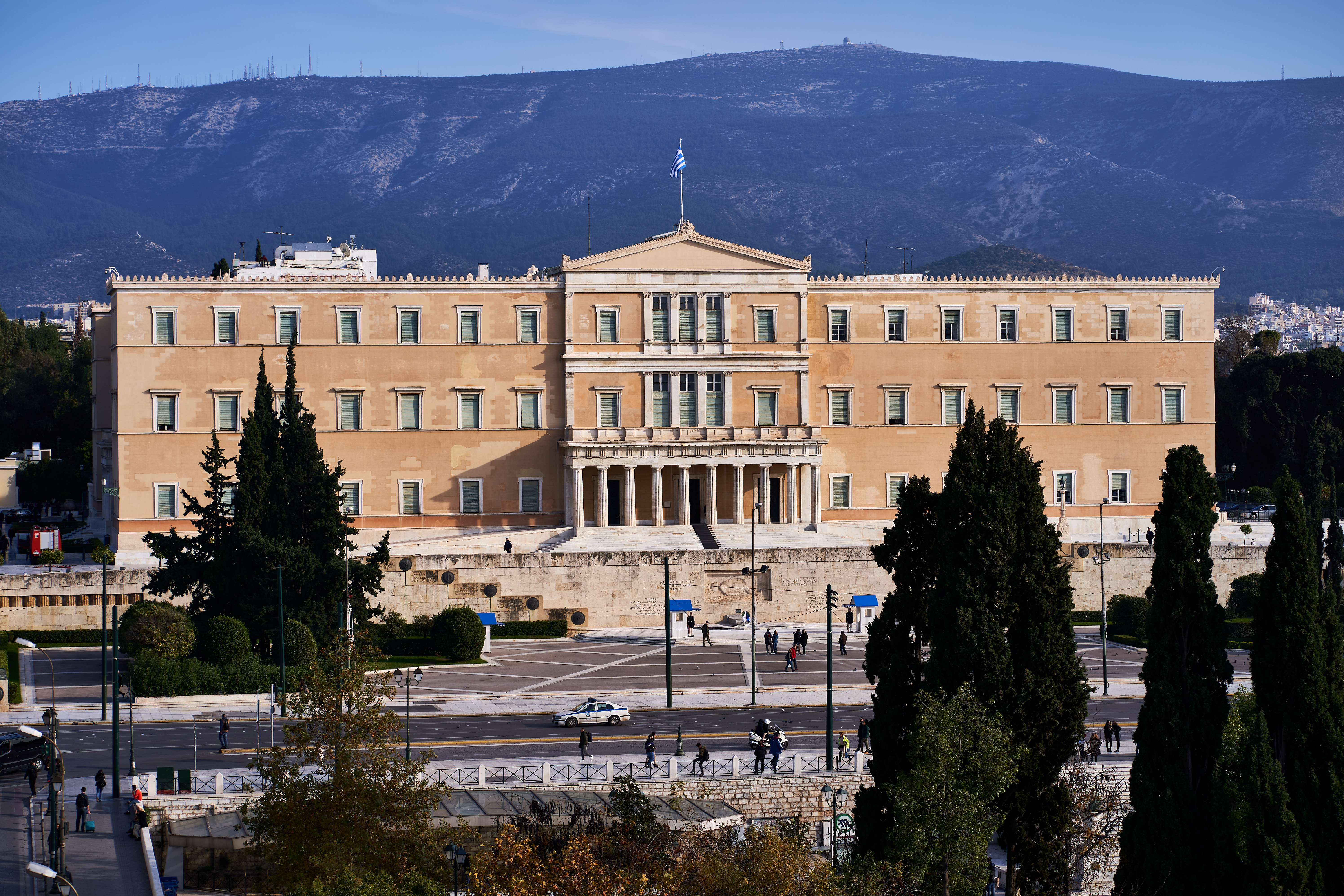 The Hellenic Parliament from a building on Karagiorgi Servias Street on December 6, 2019. In the background, Mount Hymettus.